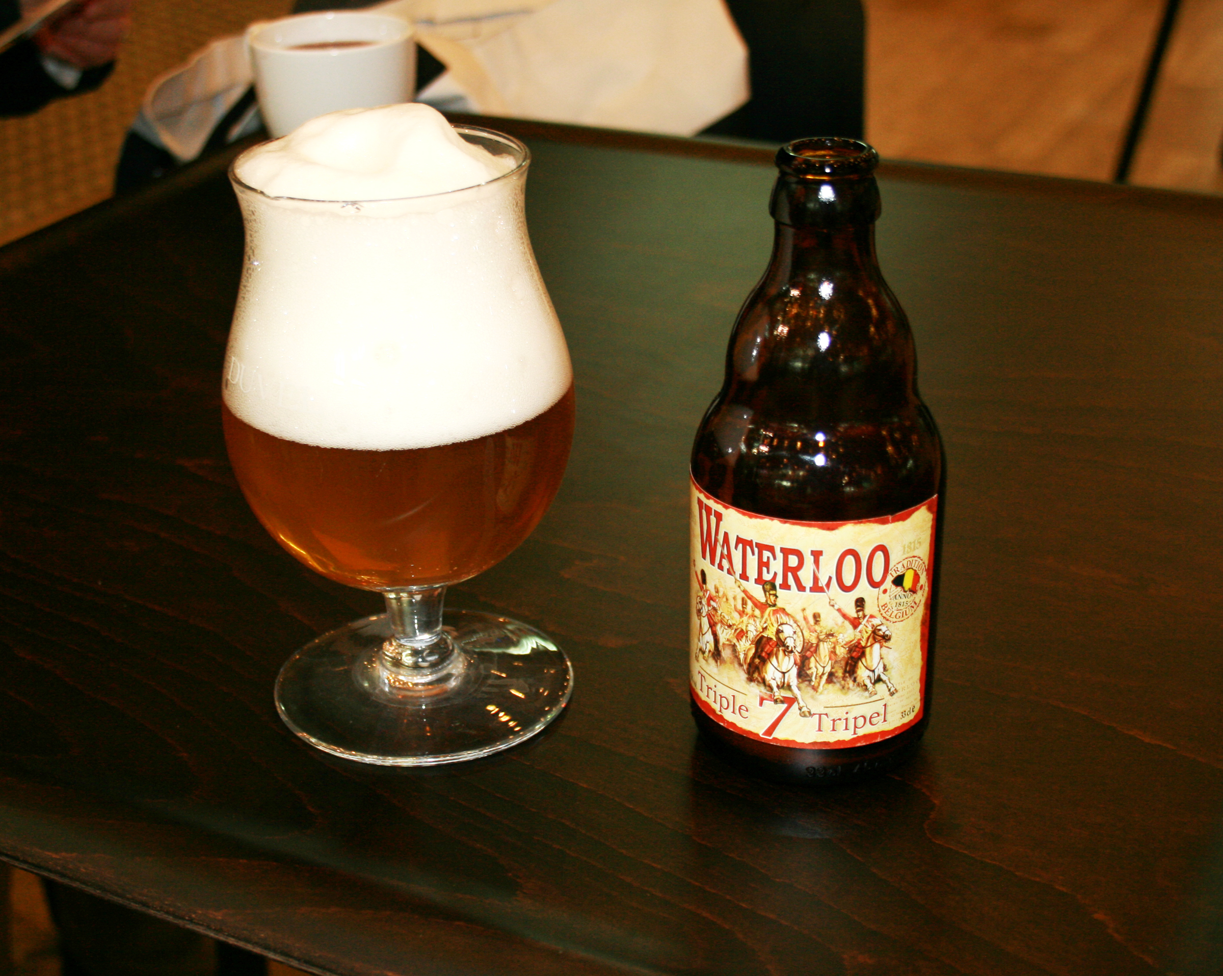 Belgian beer Waterloo